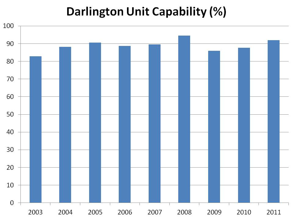 Darlington Nuclear Generating Station unit capability chart, average for 2003-2011. This was compiled from publicly available information on the OPG (Ontario Power Generation) web site.